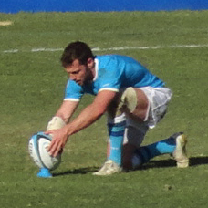 Americas qualifying play-off match for the 2019 Rugby World Cup between Uruguay and Canada.